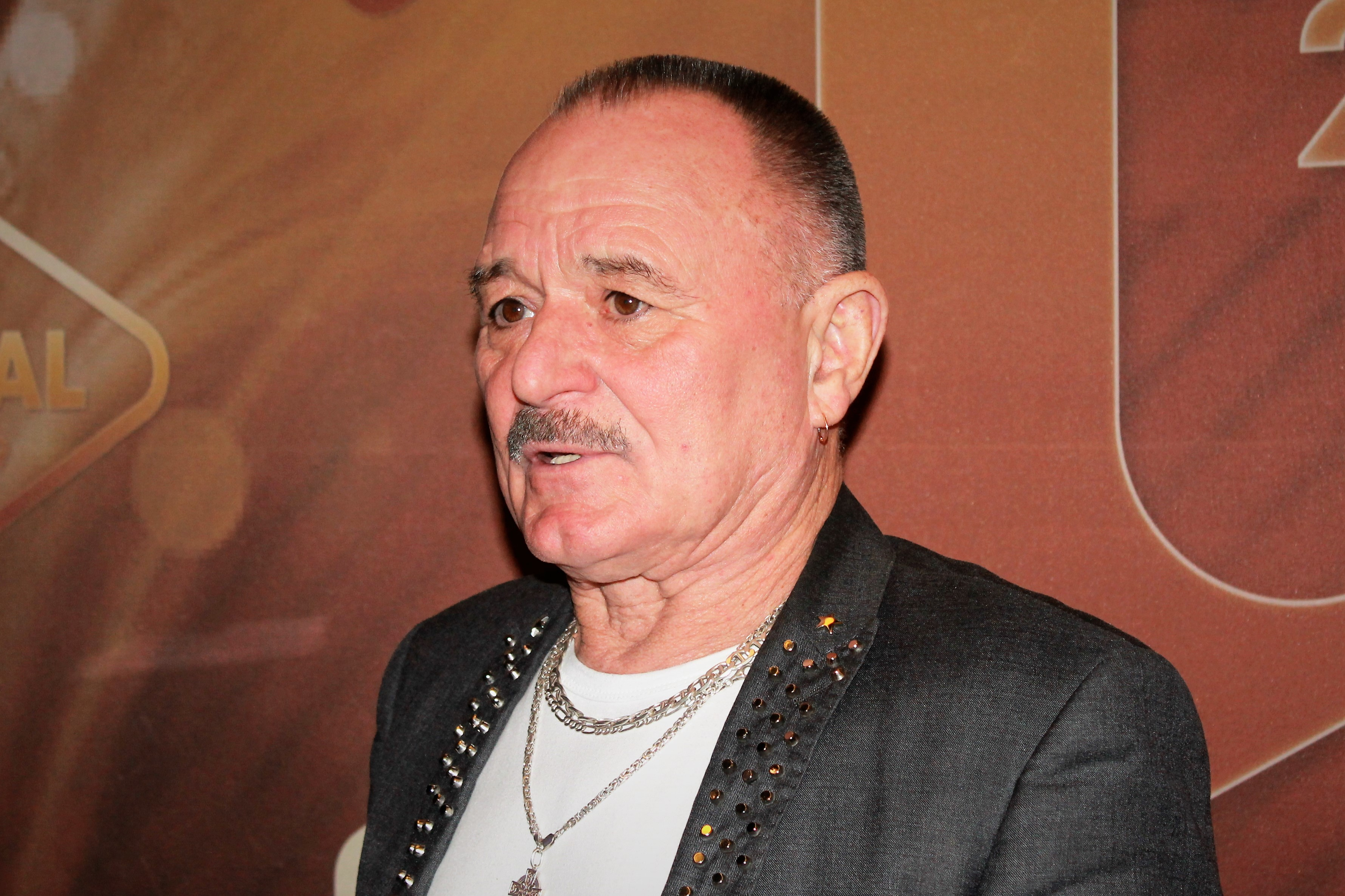 Feró Nagy, one of the jurors of A Dal 2019